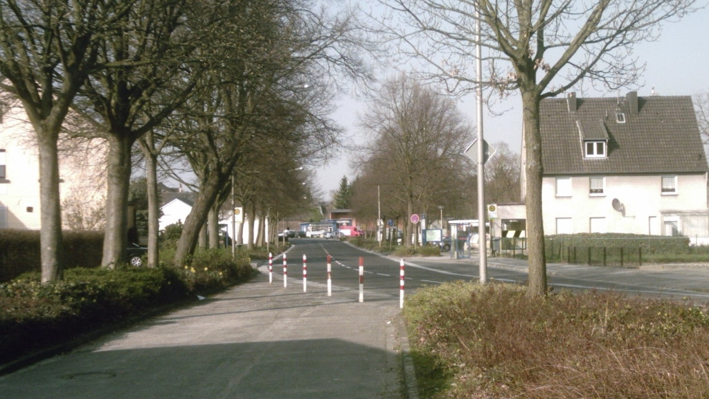 The "Gladbacher Straße" in Ummer, Viersen, Germany, seen from the street junction with Omperter Weg.